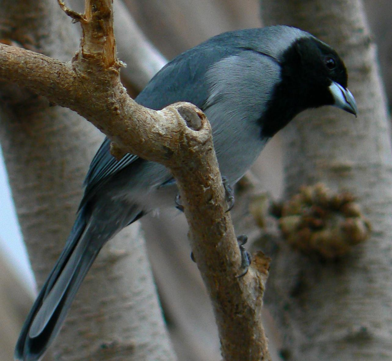 Black-faced tanager at Pittsburgh National Aviary, USA.